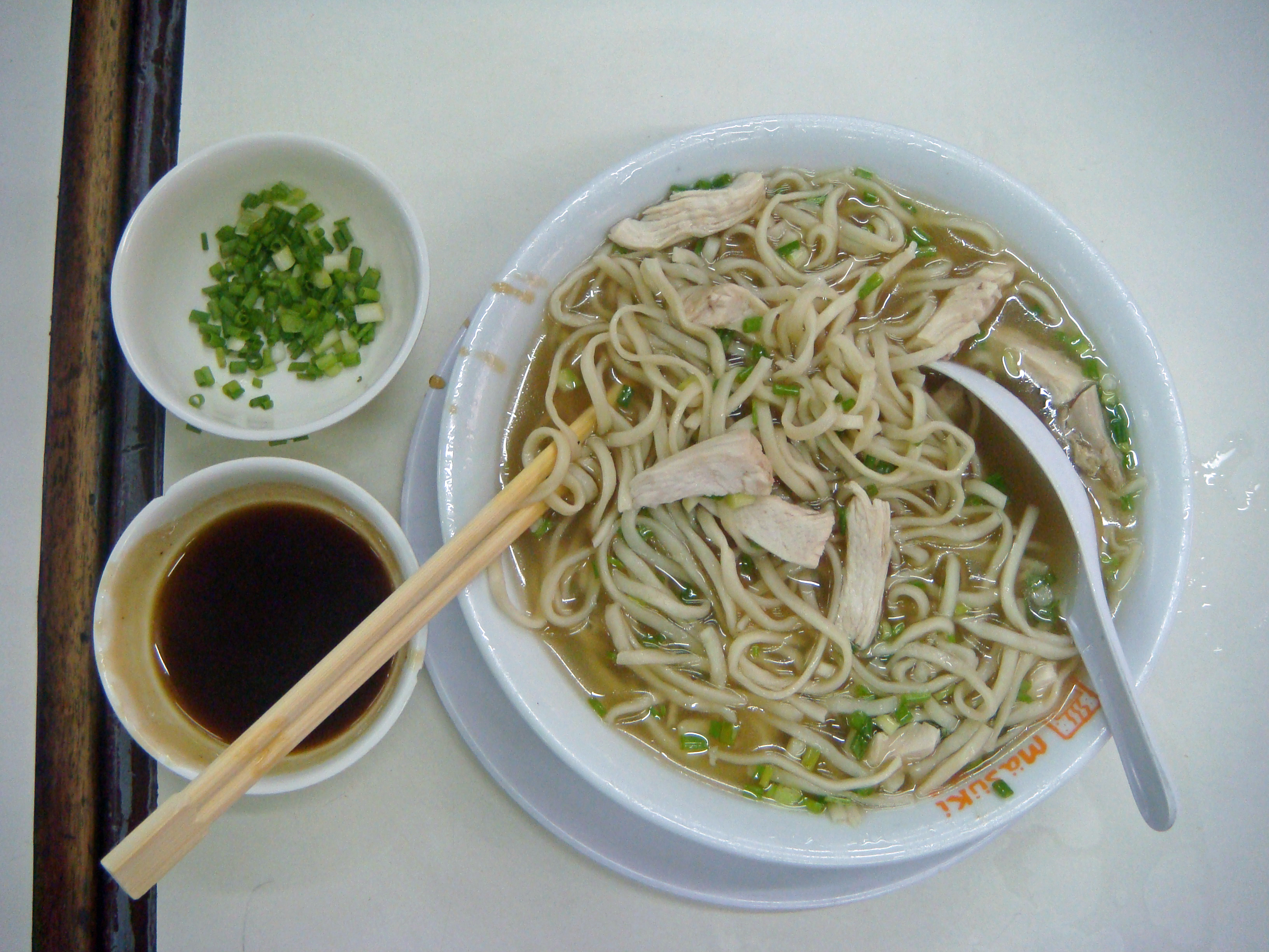 Chicken mami of MaSuki Mami Restaurant (since 1930's along with Ma Mon Luk Mami House and Ling Nam Wonton Parlor and Noodle Factory, 931 Benavidez Street Binondo, Manila)